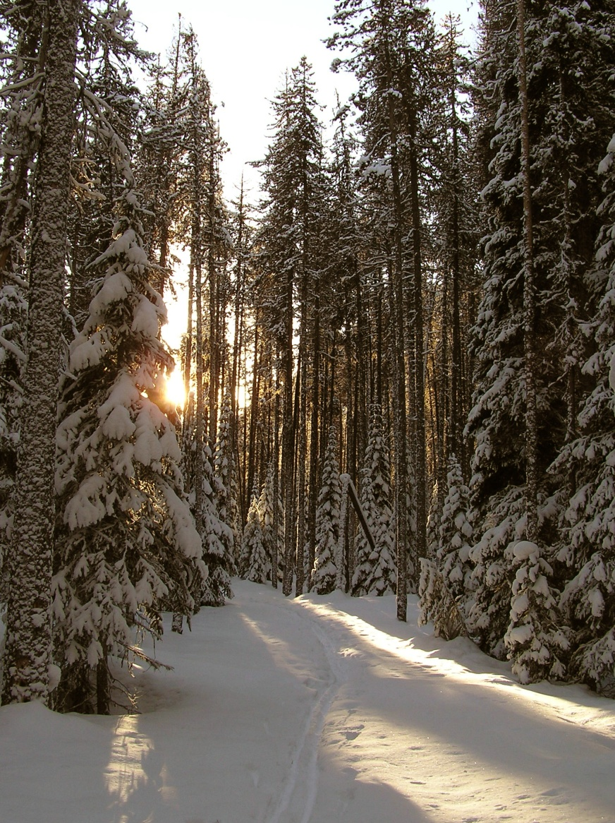 Sunset comes early in the winter. The result is beautiful. Manning Park: Castle Creek trail. Wonderful snow conditions.